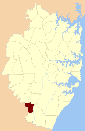 original location of the parish within Cumberland County, New South Wales (Sydney area)